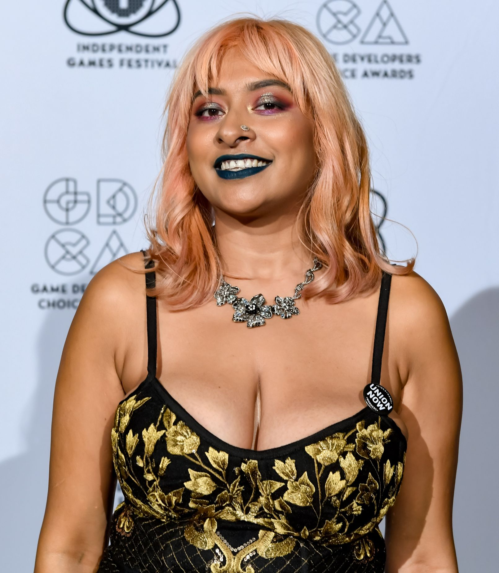 Meg Jayanth at the 2019 Independent Games Festival Awards during the Game Developers Conference 2019